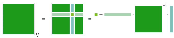 The definition of the "quasideterminant" of a square matrix is rather messy to write down in symbols (requiring the introduction of many auxillary submatrices). However, it is easy to "see" what a quasideterminant is with pictures. That is what this image hopes to accomplish.